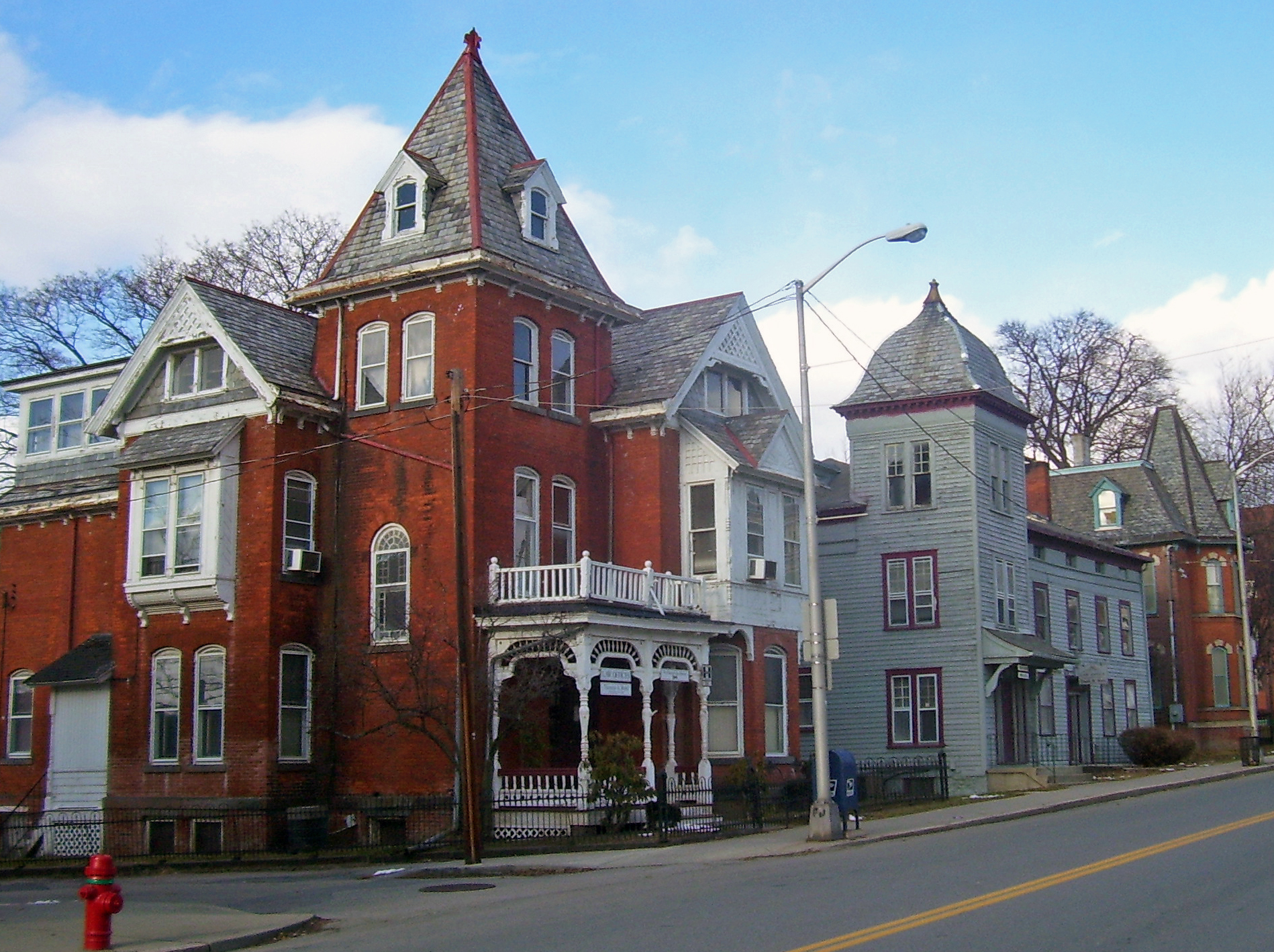 Market Street Row in Poughkeepsie, NY, USA, featuring the Mott-Van Keeck House, ca. 1780, oldest frame house in the city.